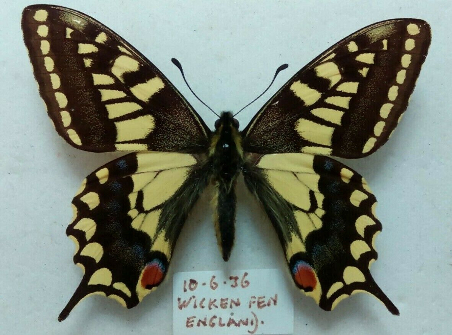 Specimen from a collection of the British Swallowtail (Brittanicus), from Wicken Fen, Cambridgeshire